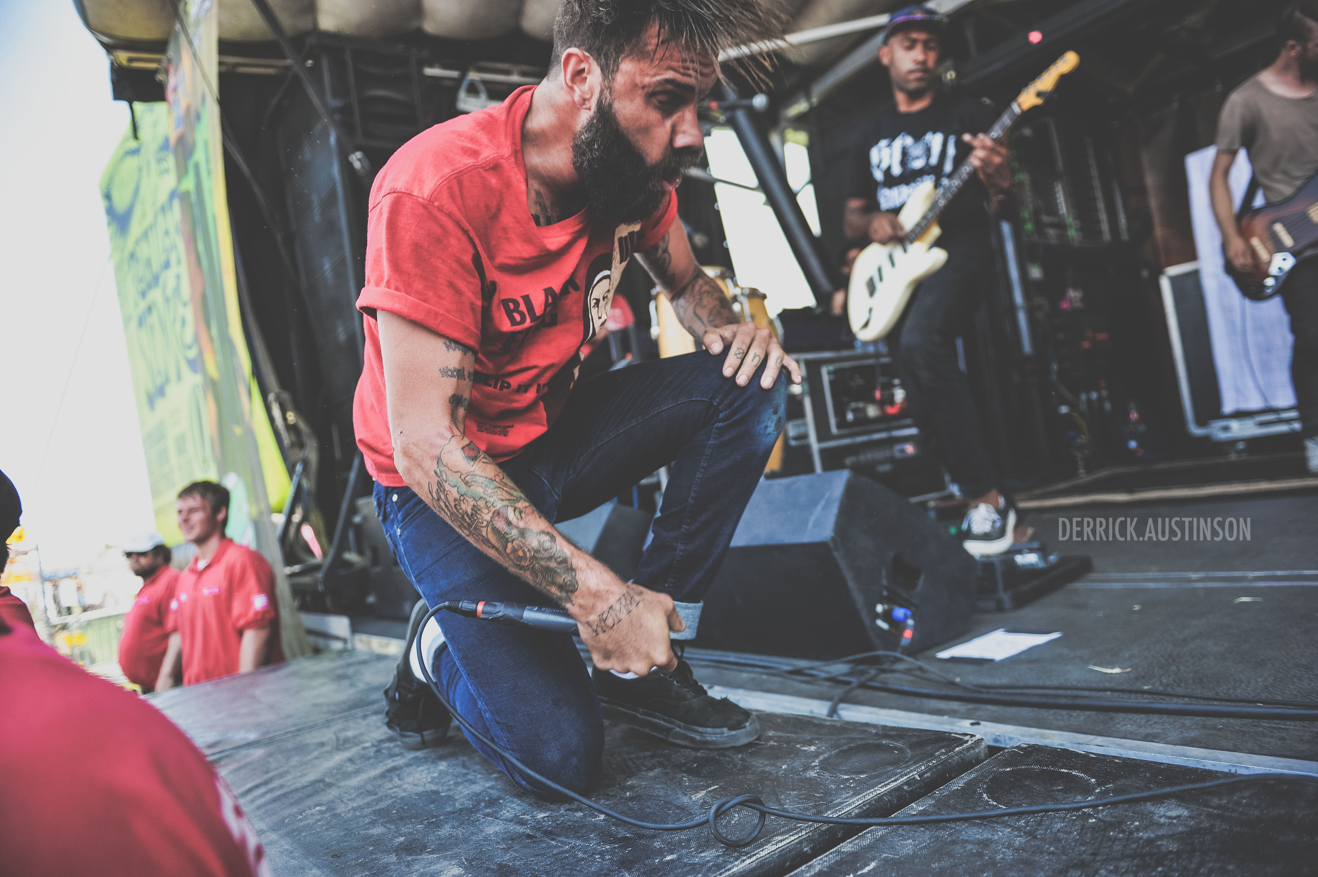 Singer of Letlive. Jason Aalon Butler performing at Mesa, Arizona, Quail Run Park for Warped Tour 2013.